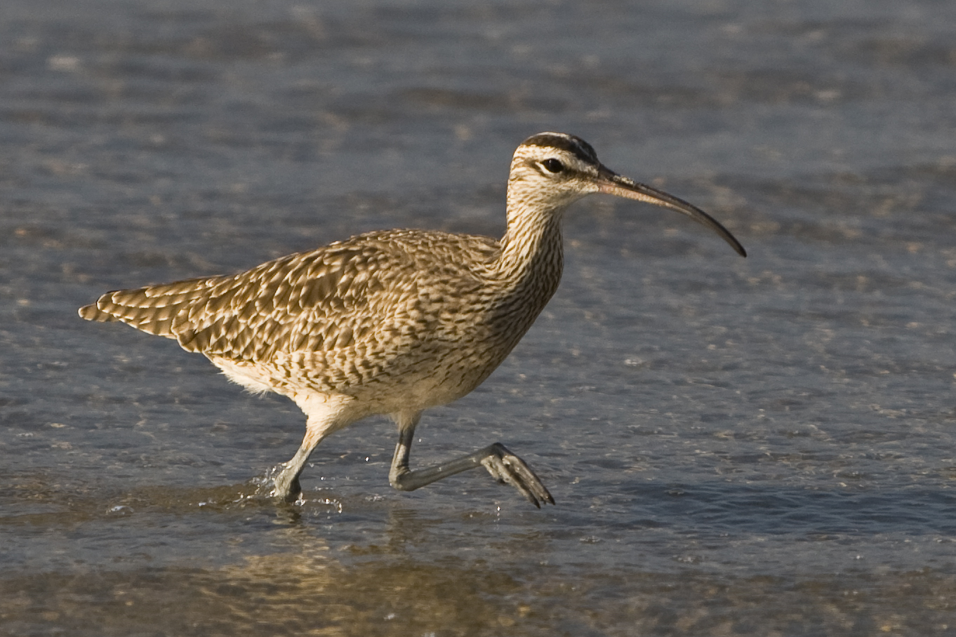 Hudsonian Whimbrel Numenius hudsonicus, Morro Strand State Beach, Morro Bay, California, USA